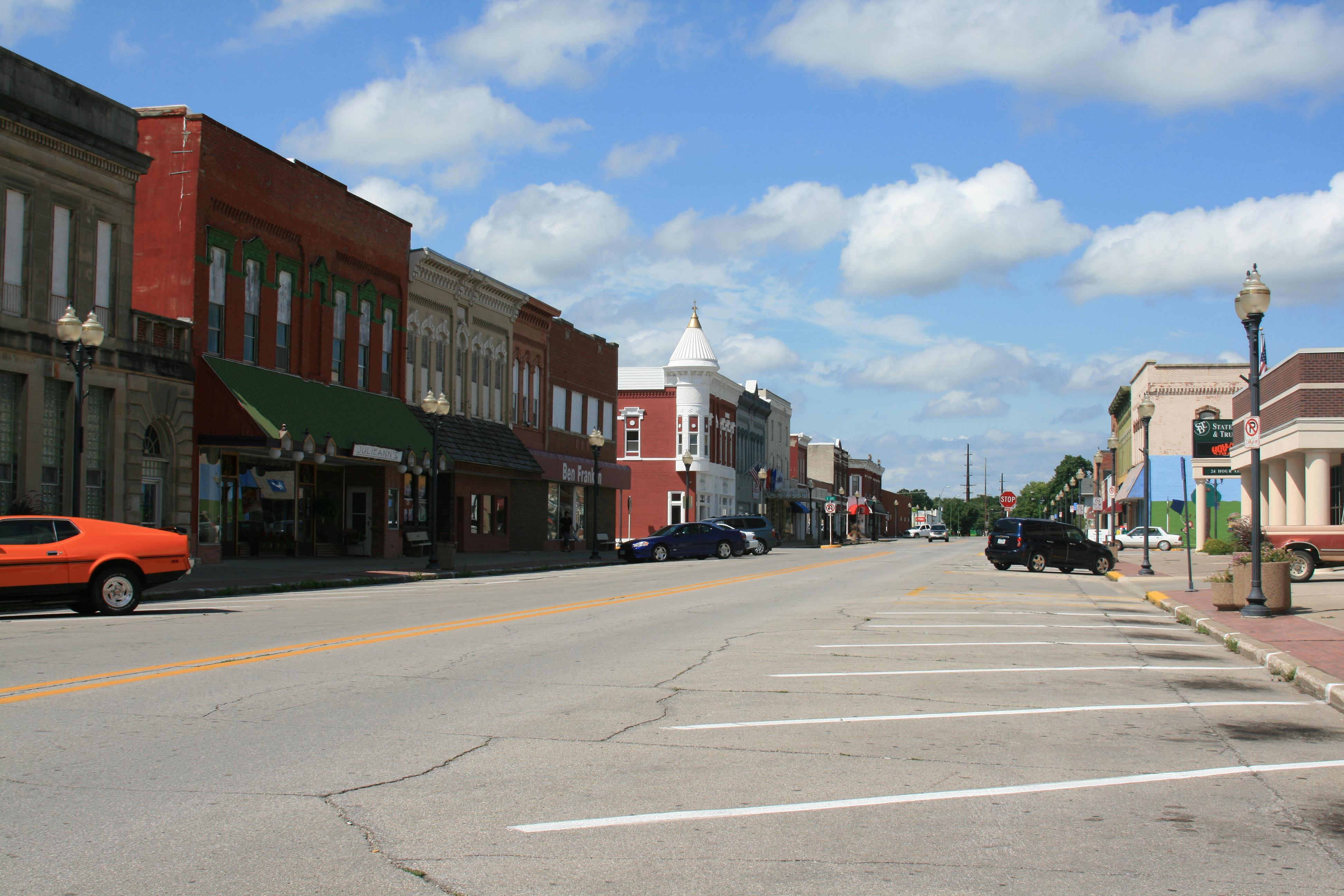 View of downtown Nevada, Iowa